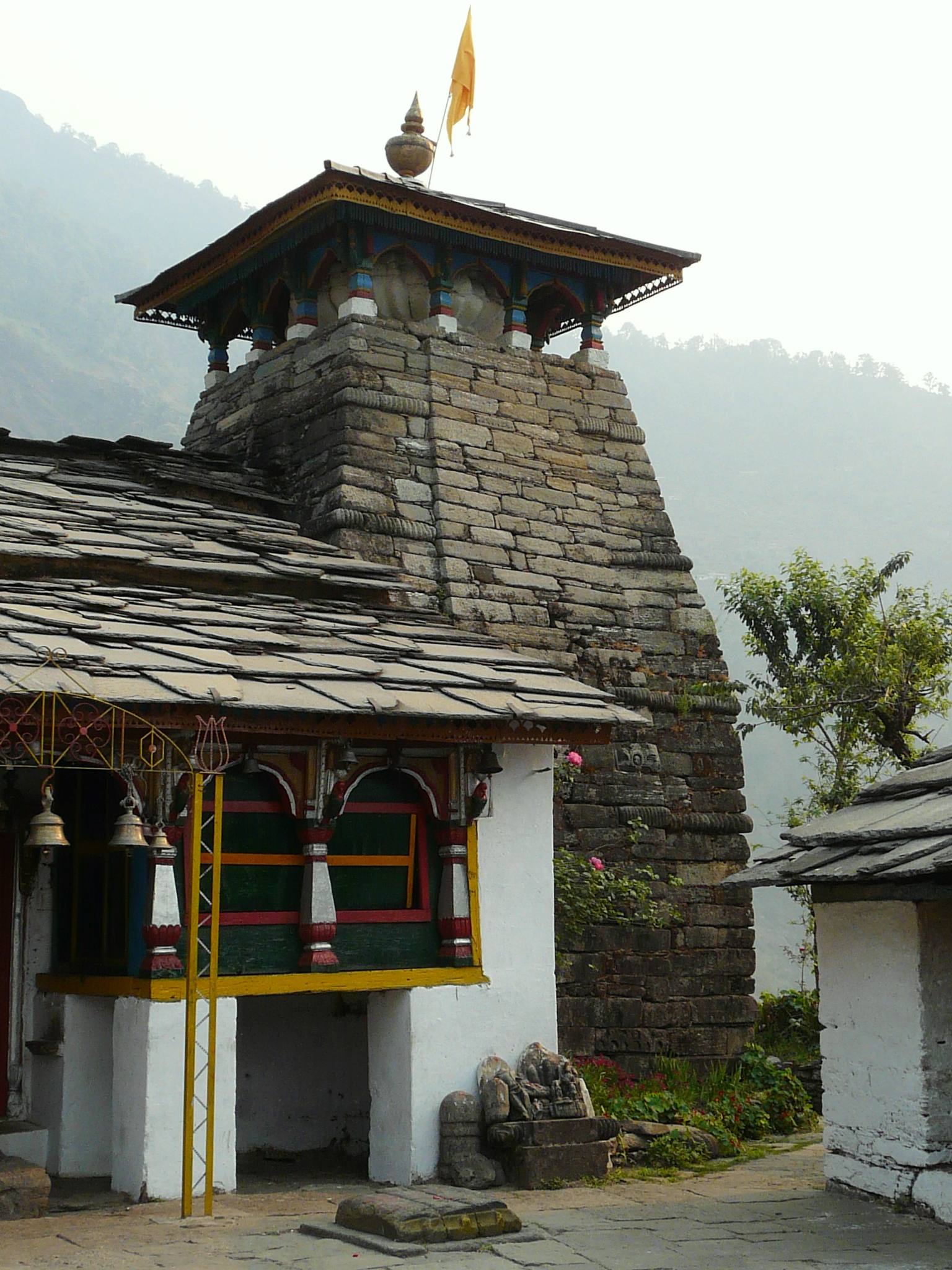 An ancient temple at Ransi village, Garhwal, Uttarakhand, enroute Madhmaheshwar.